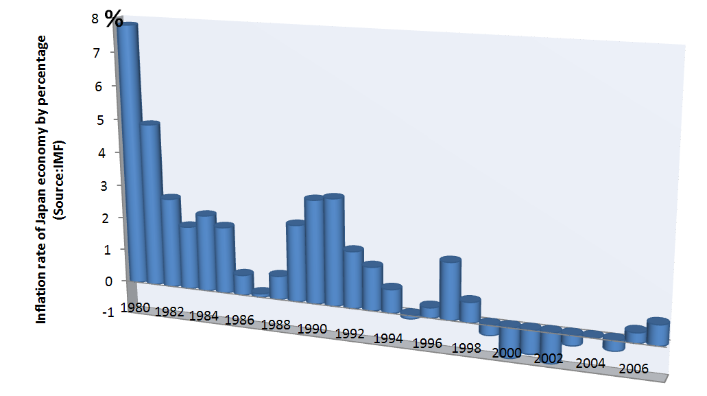 Inflation rate of Japan Economy 1980-2007 (IMF)